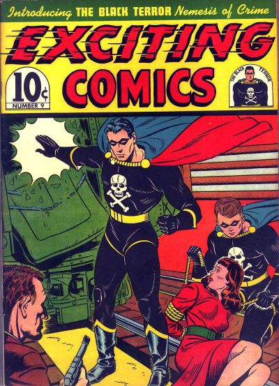 Cover of Nedor Comics Exciting Comics #9, first appearance of The Black Terror. Comic company is defunct, work believed to be in the public domain.